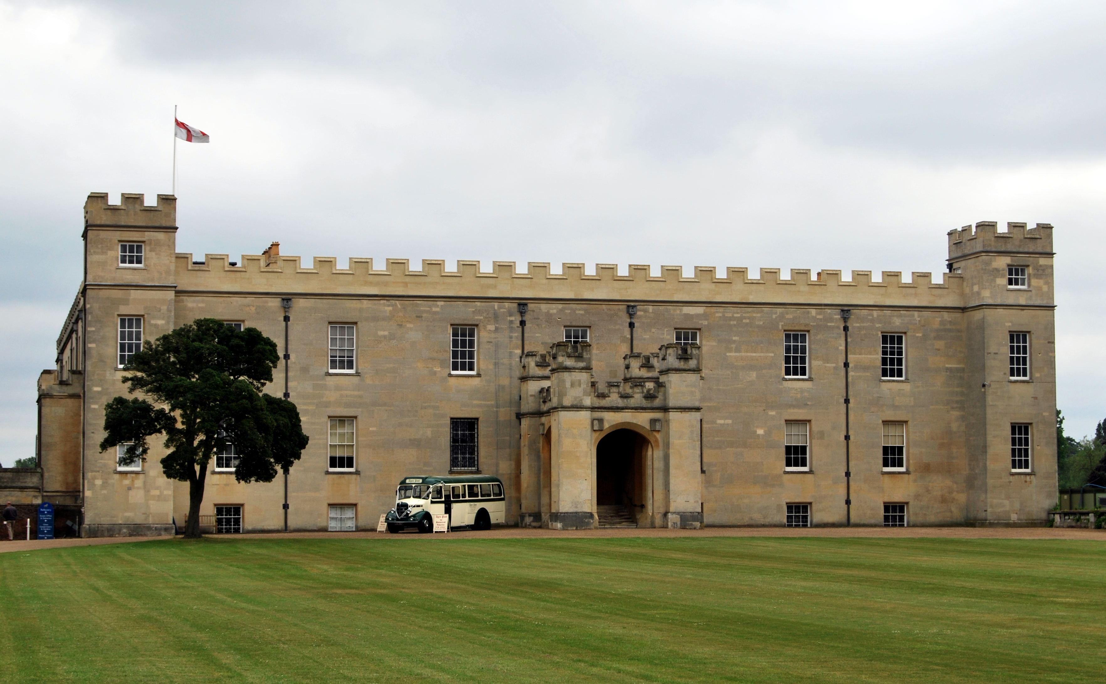 Syon House Brentford London West Aspect